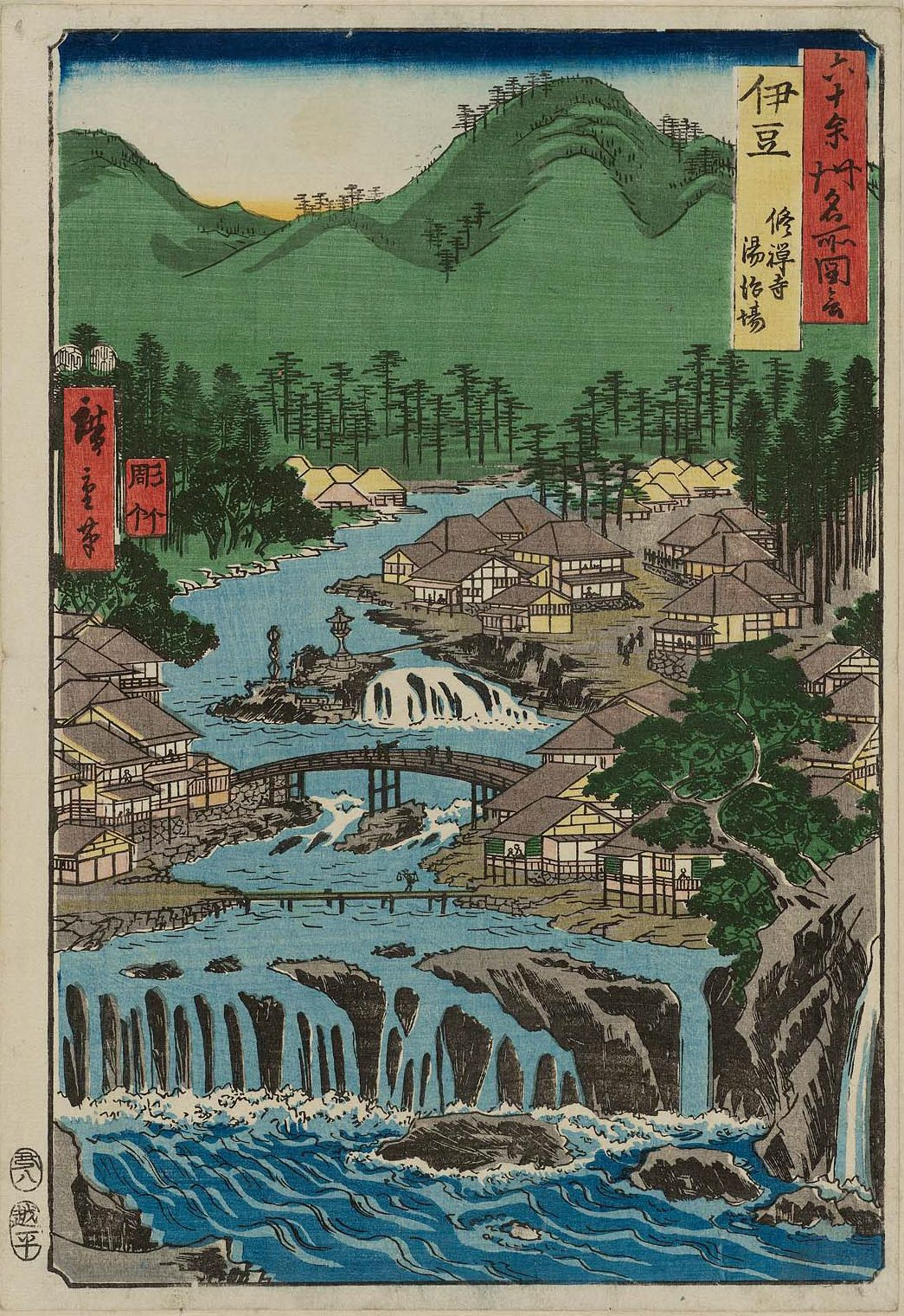 Part of the series Famous Places in the Sixty-odd Provinces, No. 14 (Tōkaidō group)